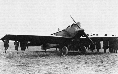 Avia BH-3